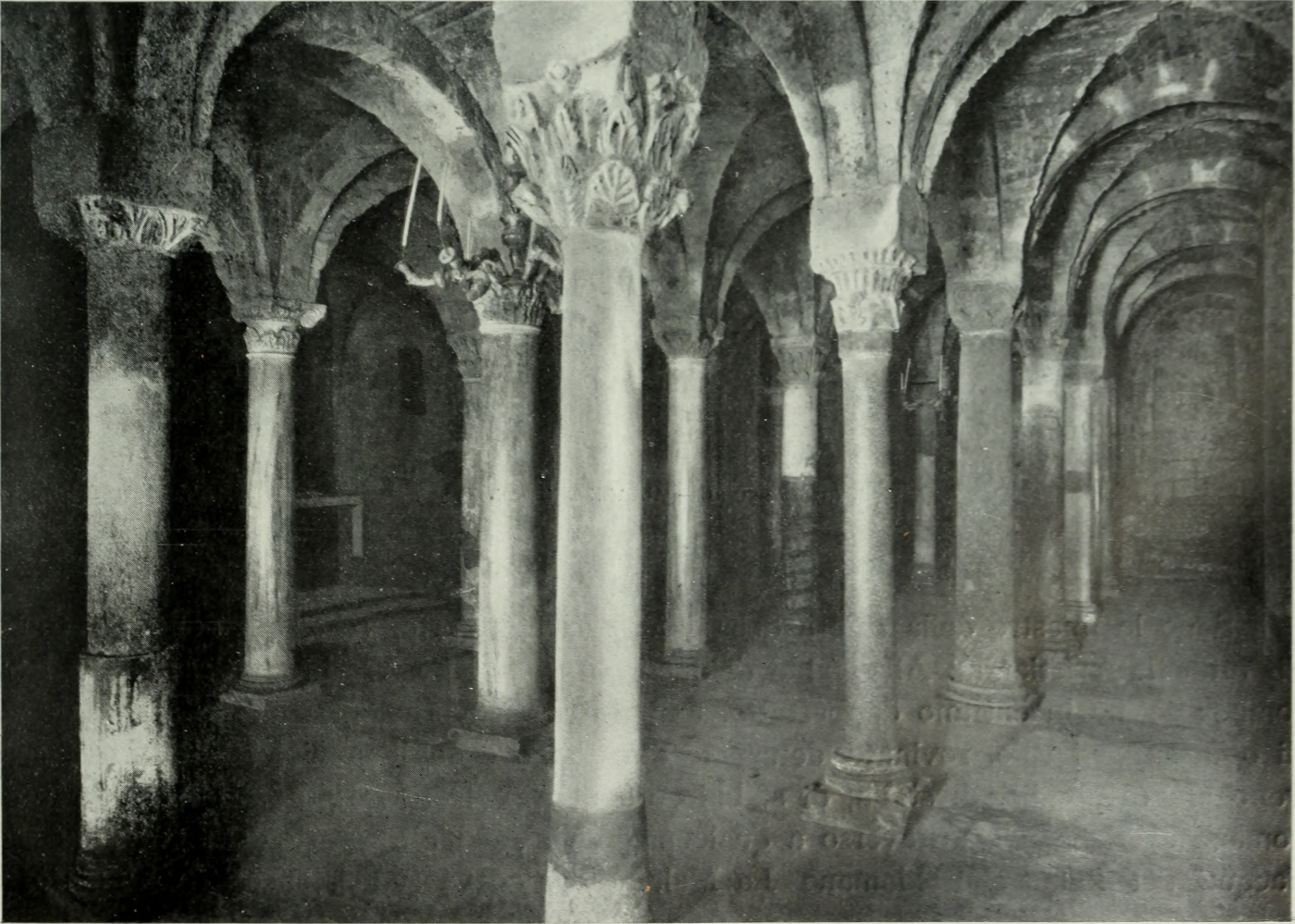 Title: Collezione di monografie illustrate Year: 1905 (1900s) Authors: Subjects: Publisher: Bergamo, Istituto Italiano d'Arti Grafiche Text Appearing Before Image: SUTR1 DUOMO. Text Appearing After Image: SITUI — DUOMO — LA CRIPTA. ^Fot. I. I. dArti Granché). 132 ITALIA ARTISTICA Suthrina. Delle cinque porte che Sutri conserva ancora, solamente tre sono cre-dute di origine primitiva, e se così è, Sutri avrebbe allora avuto il numero precisodi porte che il rituale etrusco prescriveva alla città. Sceso, e traversata la piccola valle, prima di .^tlire al poggio Savorelli io vidiai piedi dellalto e scosceso dirupo delle irregolari finestre praticate nel tufo.